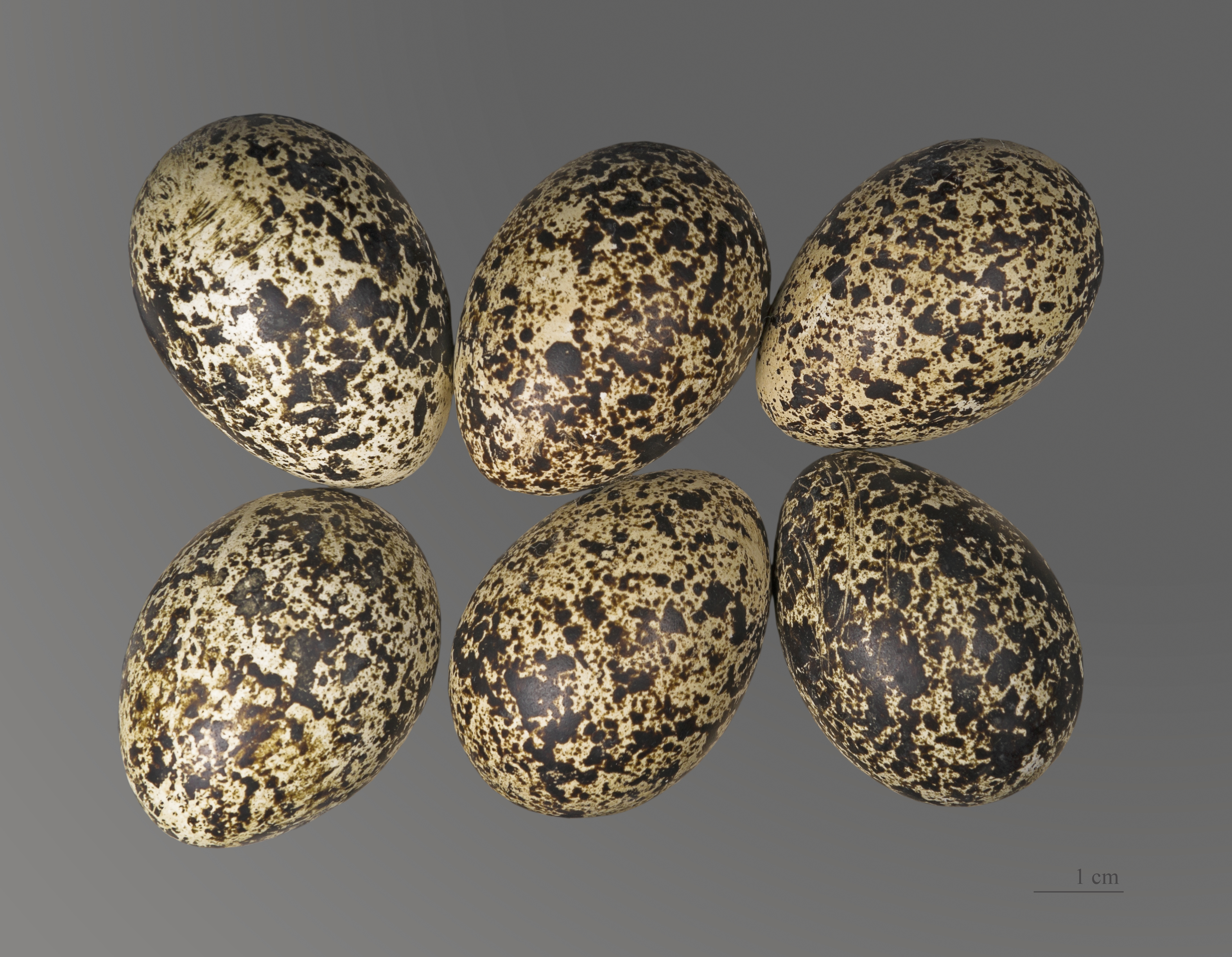 Egg of Rock Ptarmigan. Collection of Jacques Perrin de Brichambaut. Locality: Lapland.